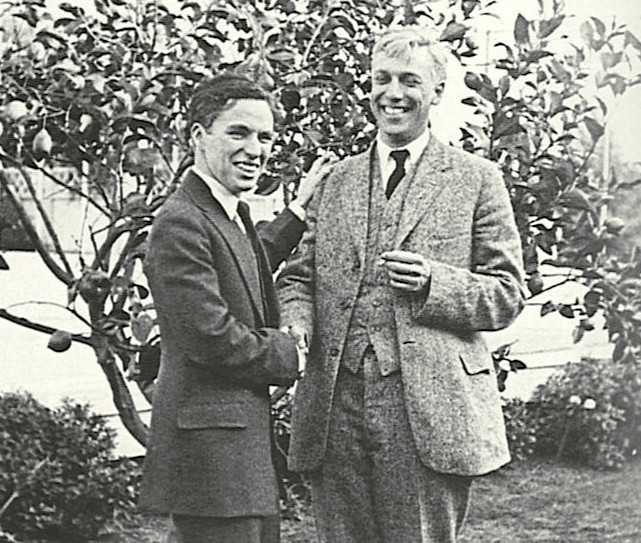 Charlie Chaplin and Max Eastman in Hollywood 1919. Source John P. Diggins Up from Communism.